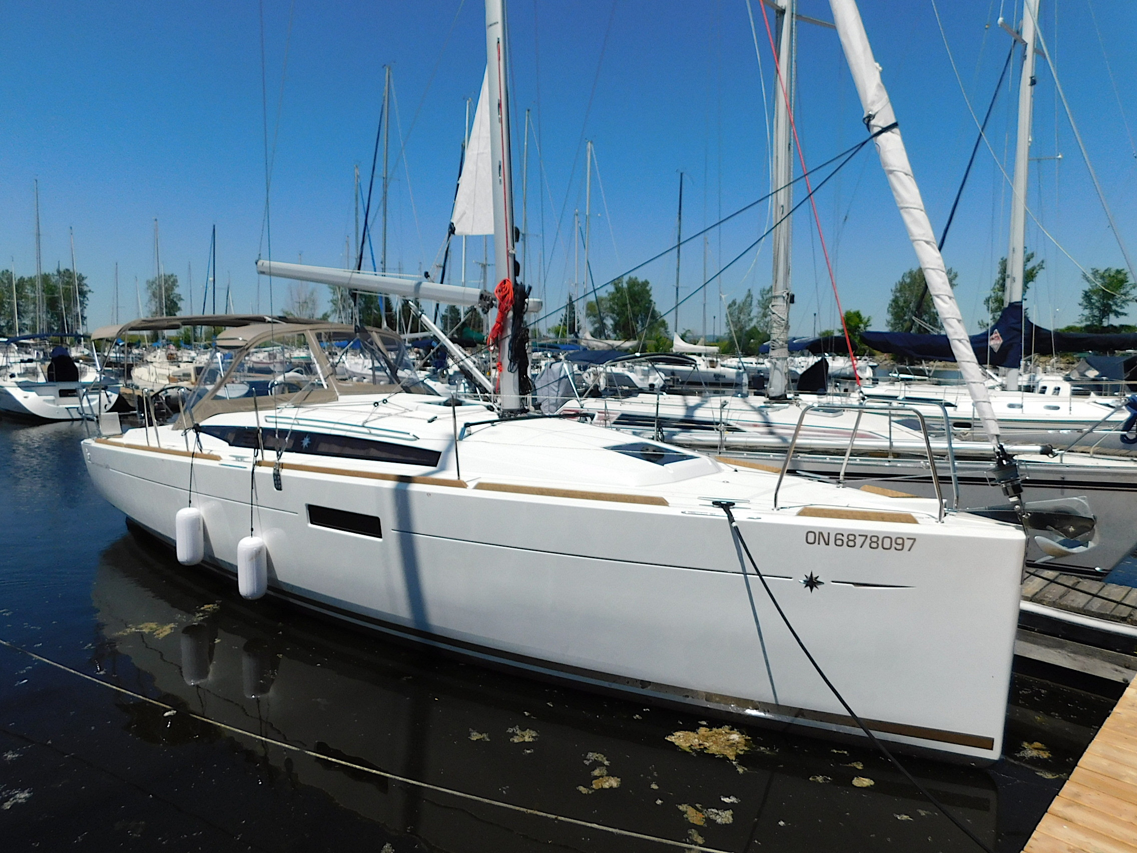 A Jeanneau Sun Odyssey 349 sailboat named French Kiss.